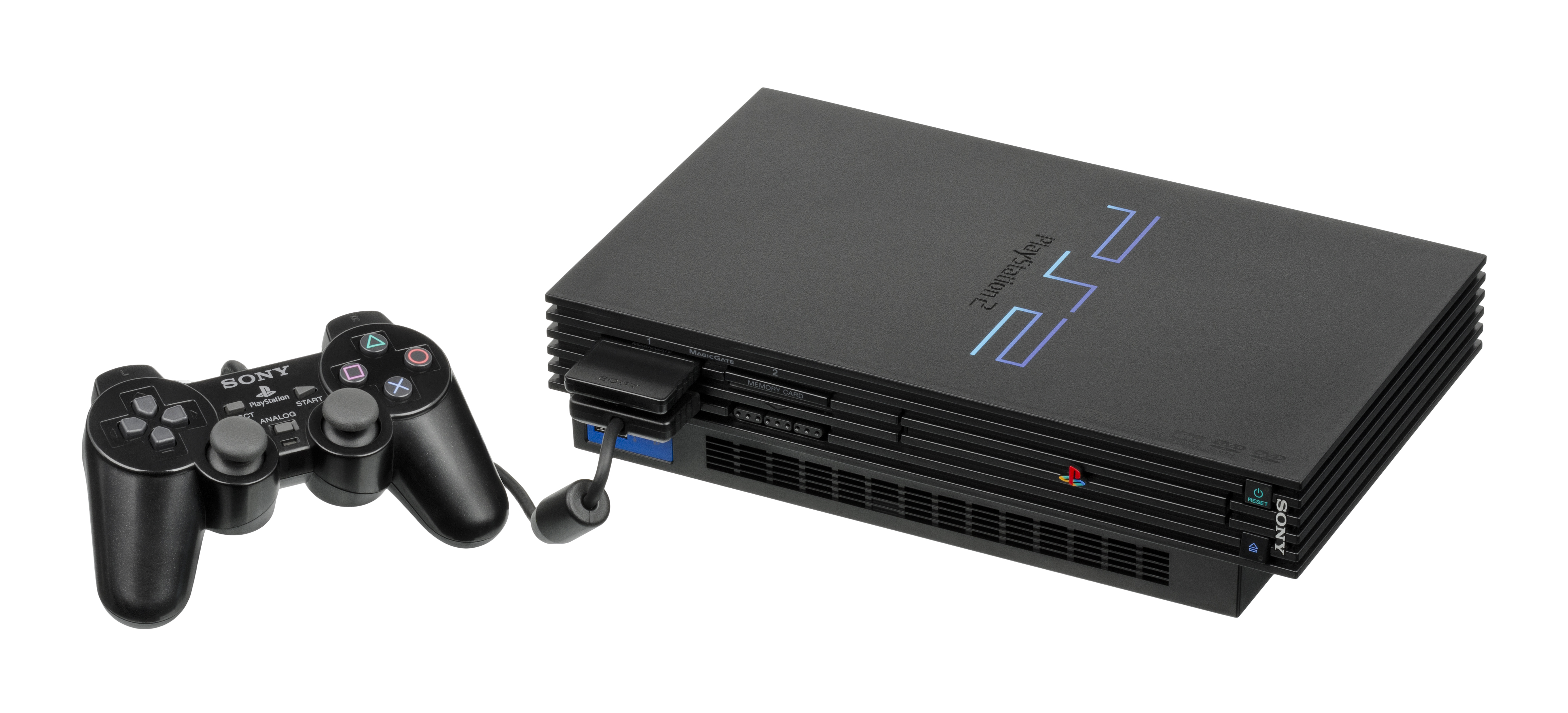 The Sony PlayStation 2 (PS2) video game console, shown with Dualshock 2 controller and 8MB memory card plugged in. First released in 2000, it is a sixth generation console and the follow up to the hugely successful PlayStation console. The system would continue the success, going on to become the highest selling video game console of all time.